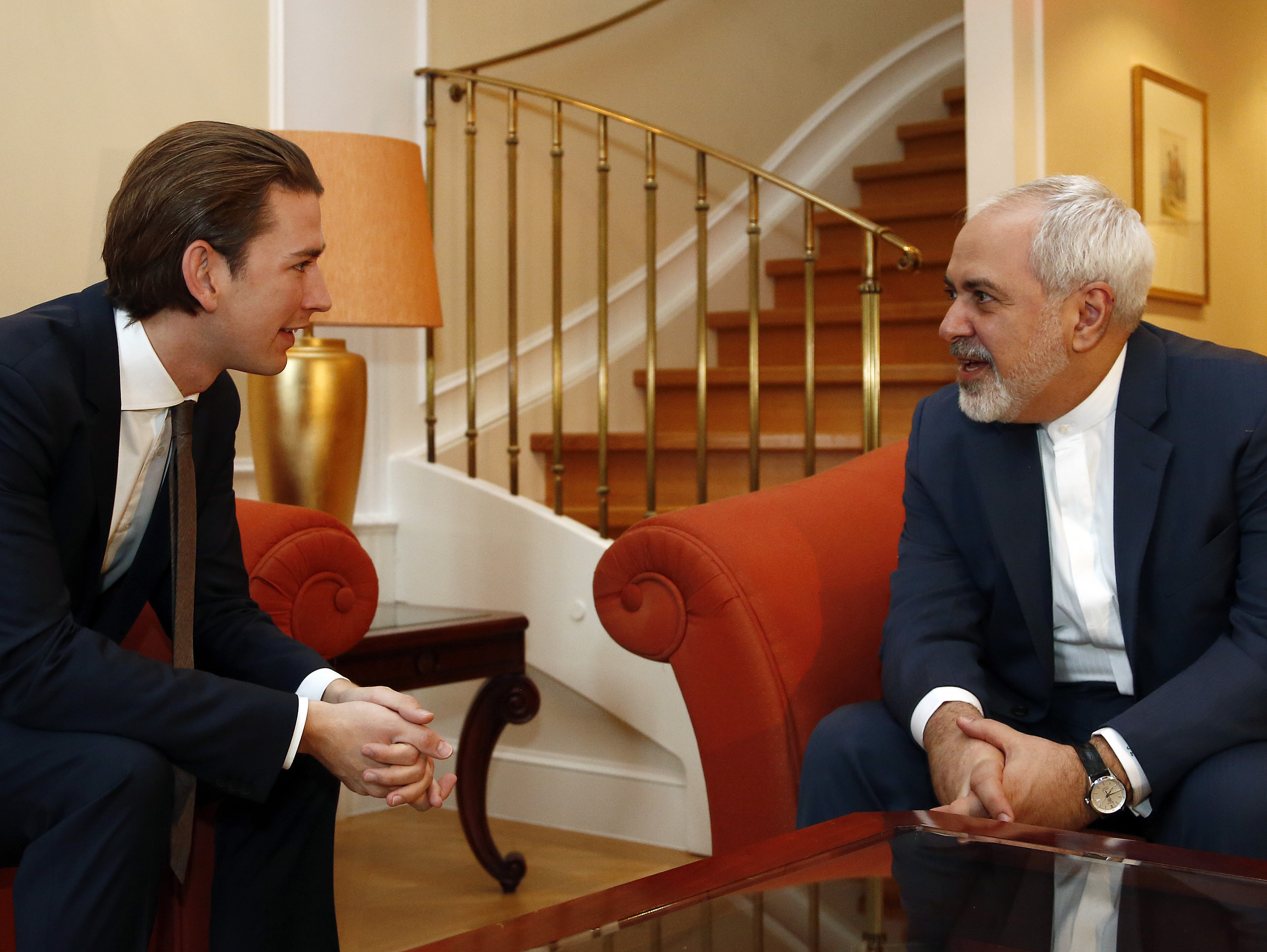 Austrian Foreign Minister Sebastian Kurz meets with Iranian Foreign Minister Mohammad Javad Zarif in Vienna.